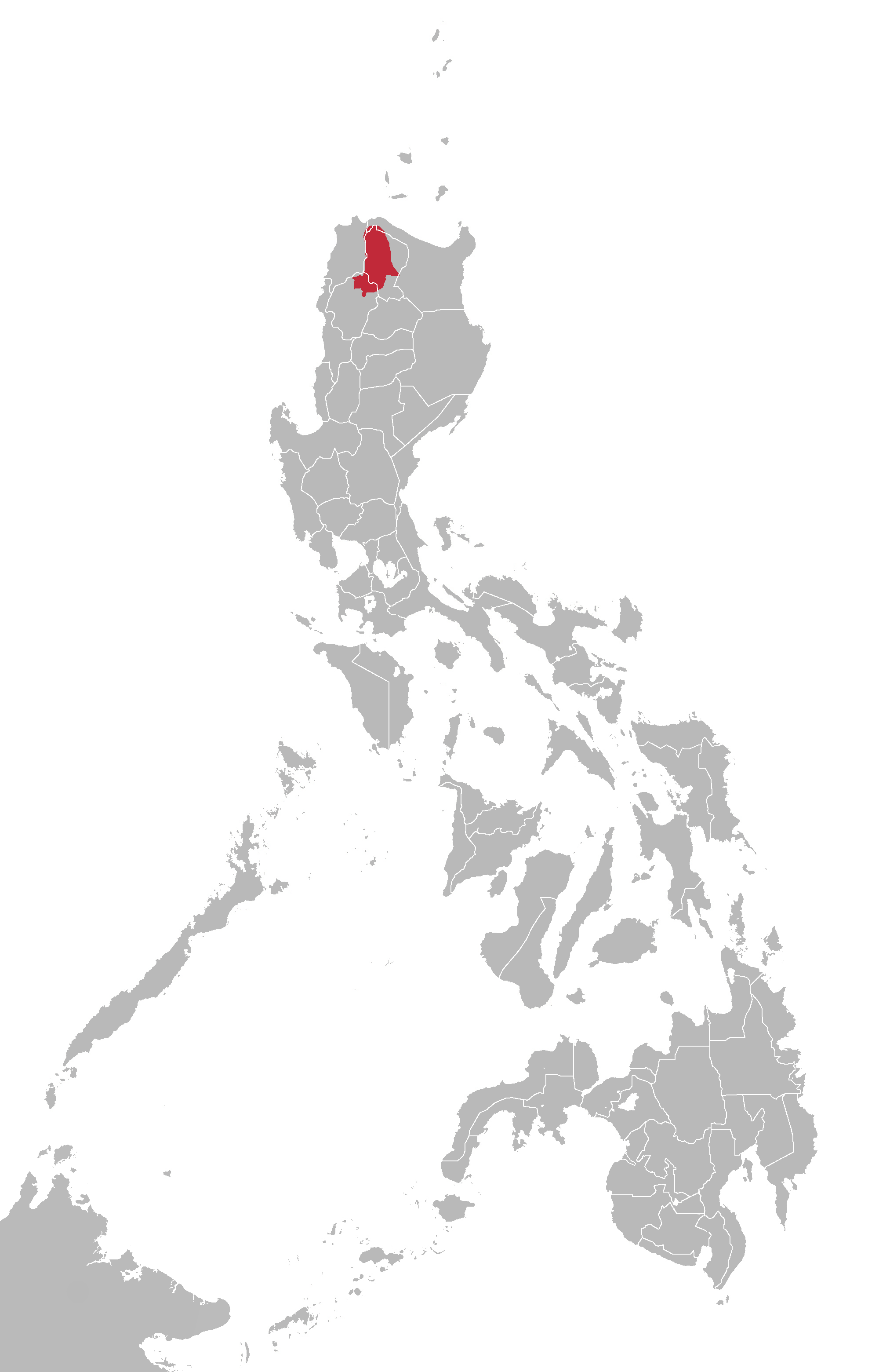 Isnag language map based on Ethnologue maps